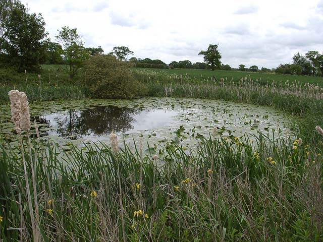 Churton marlpit. The ponds around Churton are typical marlpits from which calcareous clay was once extracted for spreading on the land to improve fertility. Today they are valuable wildlife havens.